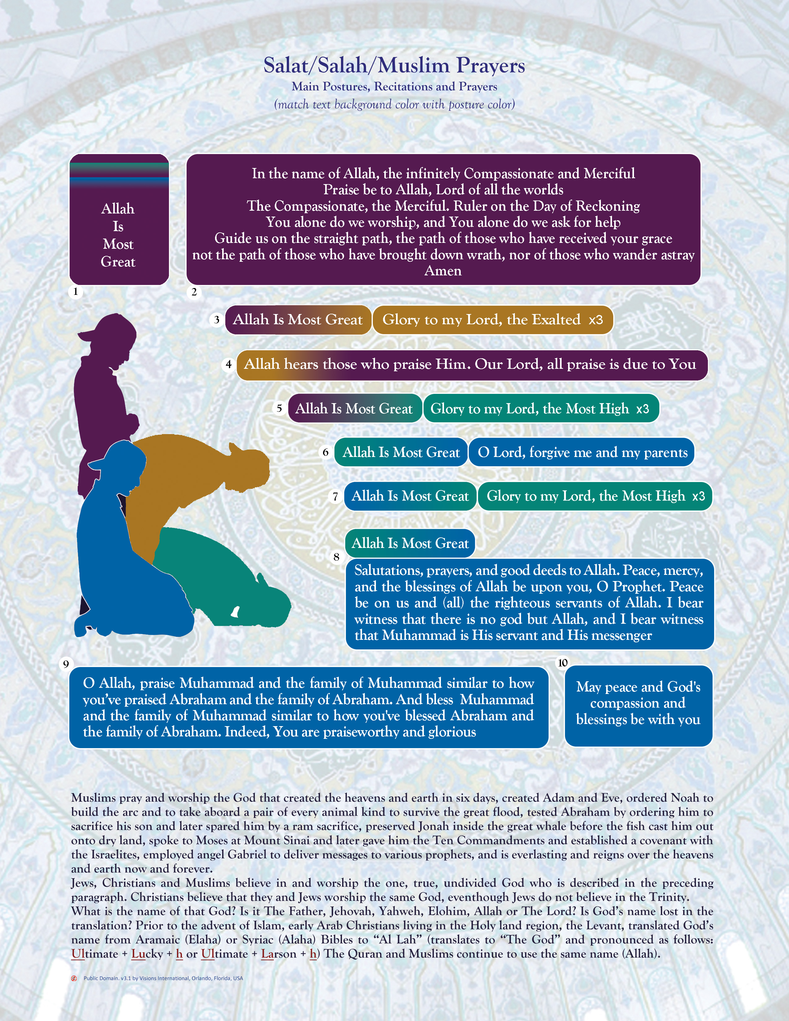 Primary postures and recitations made during Salat (Salah) or muslim prayers.